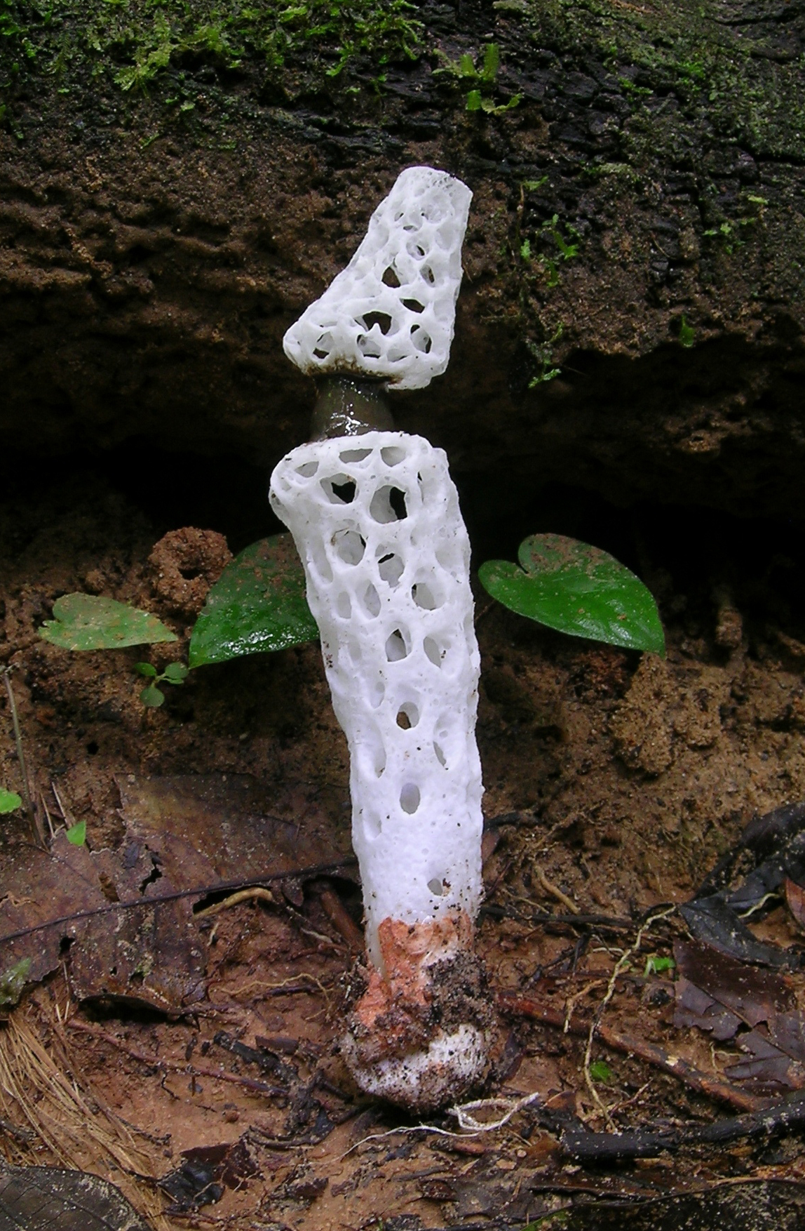 Fruit body of the stinkhorn fungus Staheliomyces cinctus E. Fisch. Specimen photographed in Laguna Azul, Pilón Lajas Biosphere Reserve, José Ballivián, Beni, Bolivia. License kindly changed upon request to cc-by-sa 3.0 by Myxomop. Original photo cropped by Commons uploader (Sasata).